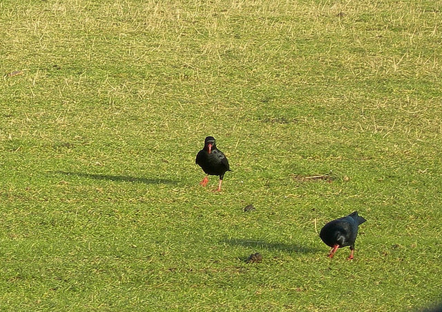 Feeding Choughs Islay is one of the best places in Scotland to see the Chough. Numbers are growing, thanks to partnerships between local farmers and the RSPB. This pair was busy feeding on the raised beach. For more information about the Chough